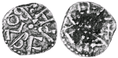 Coin of Osberht of Northumbria (d. 867)